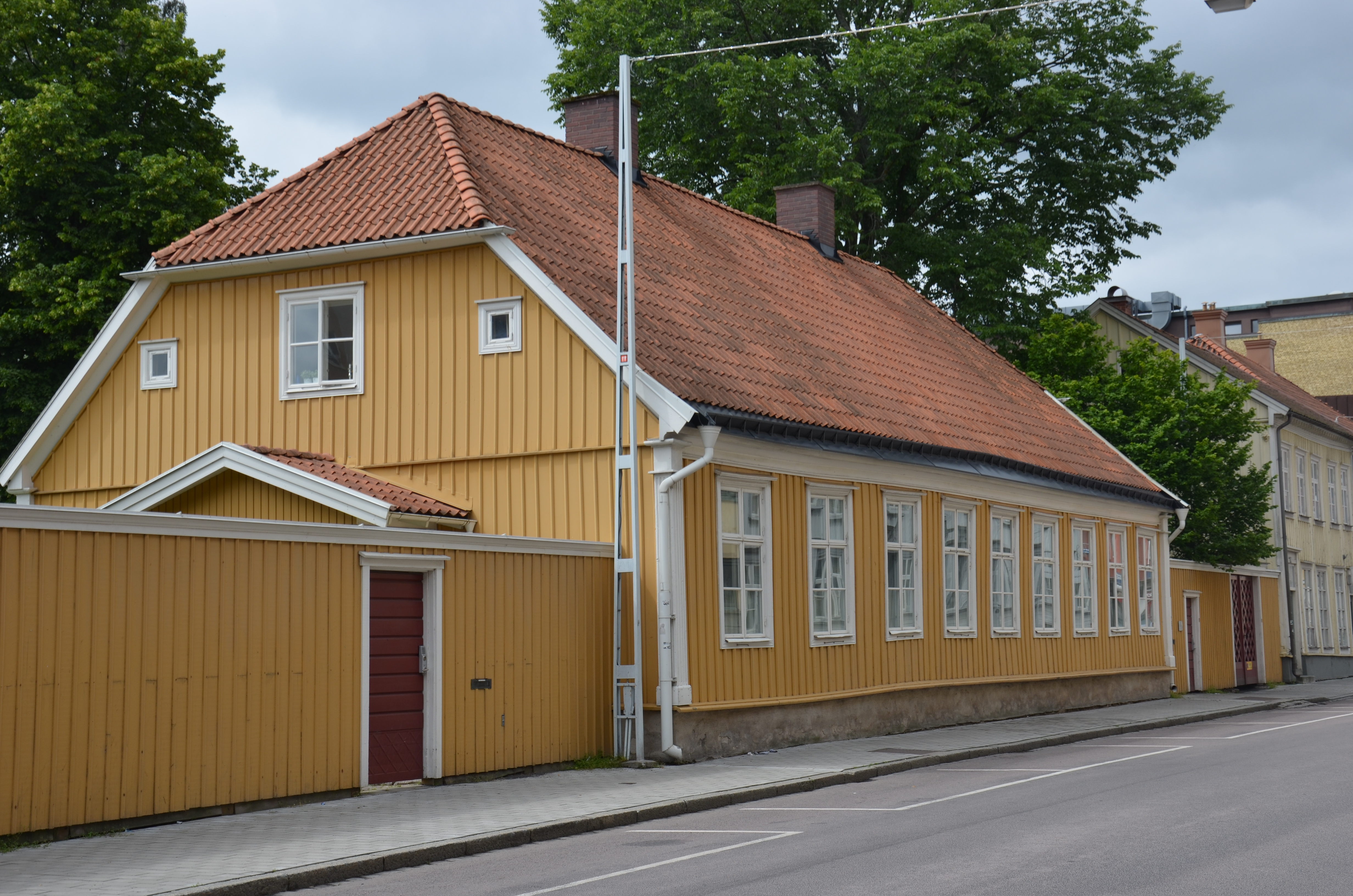 Ulfsparregården, Östra Storgatan, Jönköping. Fastigheten uppförd 1790 och donerades till Svenska kyrkan 1929. Idag prästbostad i Kristina-Ljungarums församling